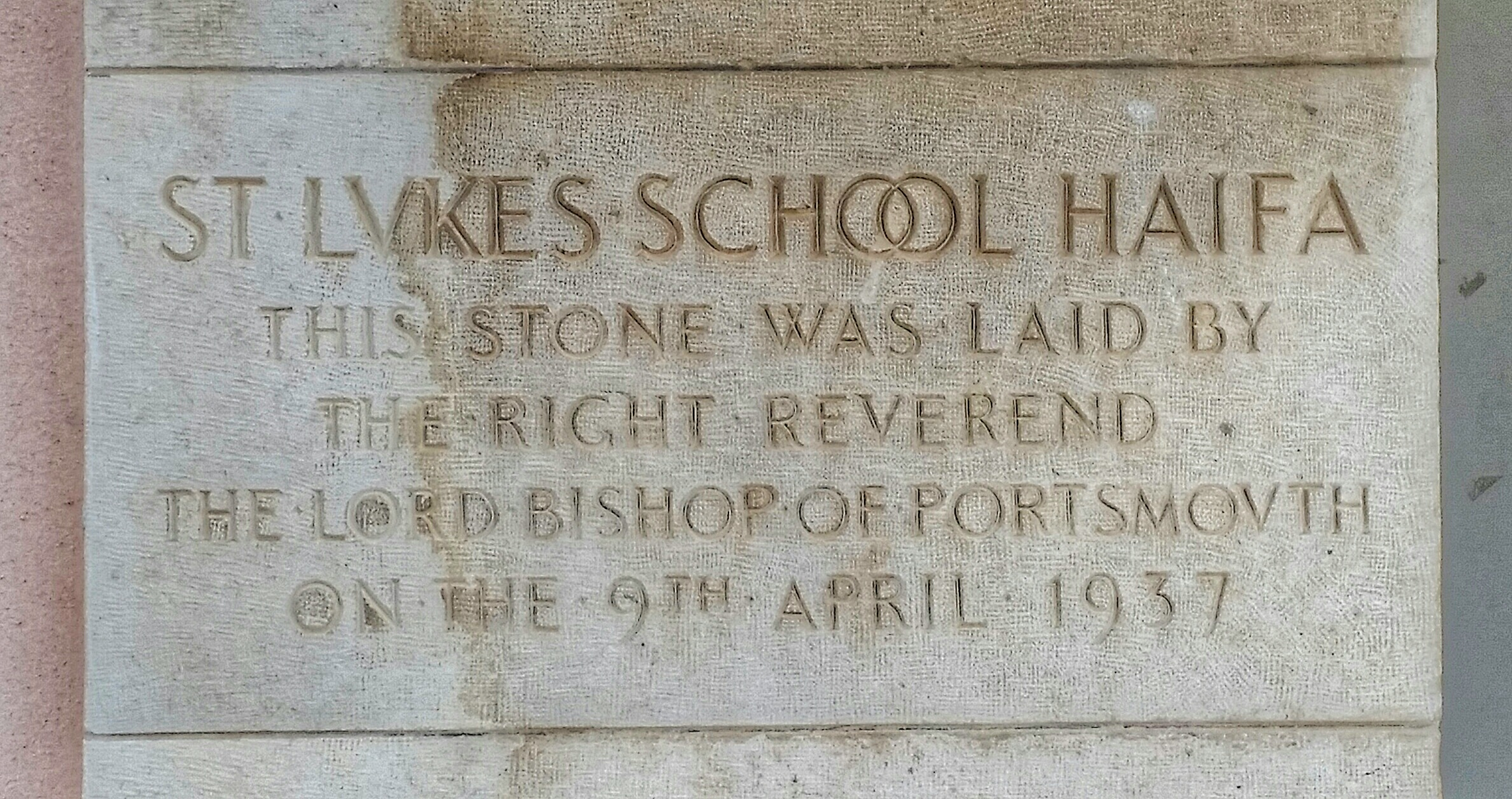 Today an IDF hospital